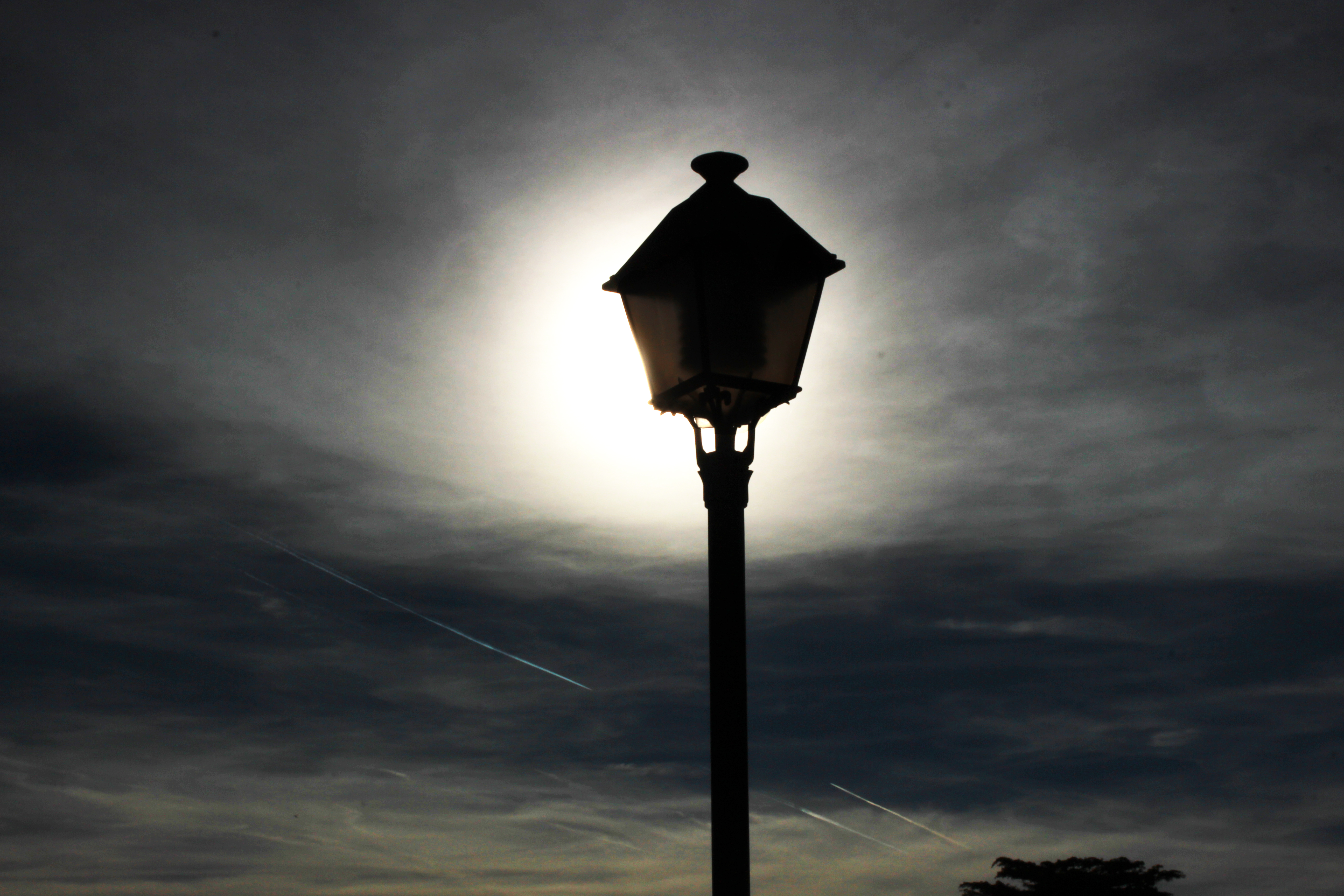 street furniture